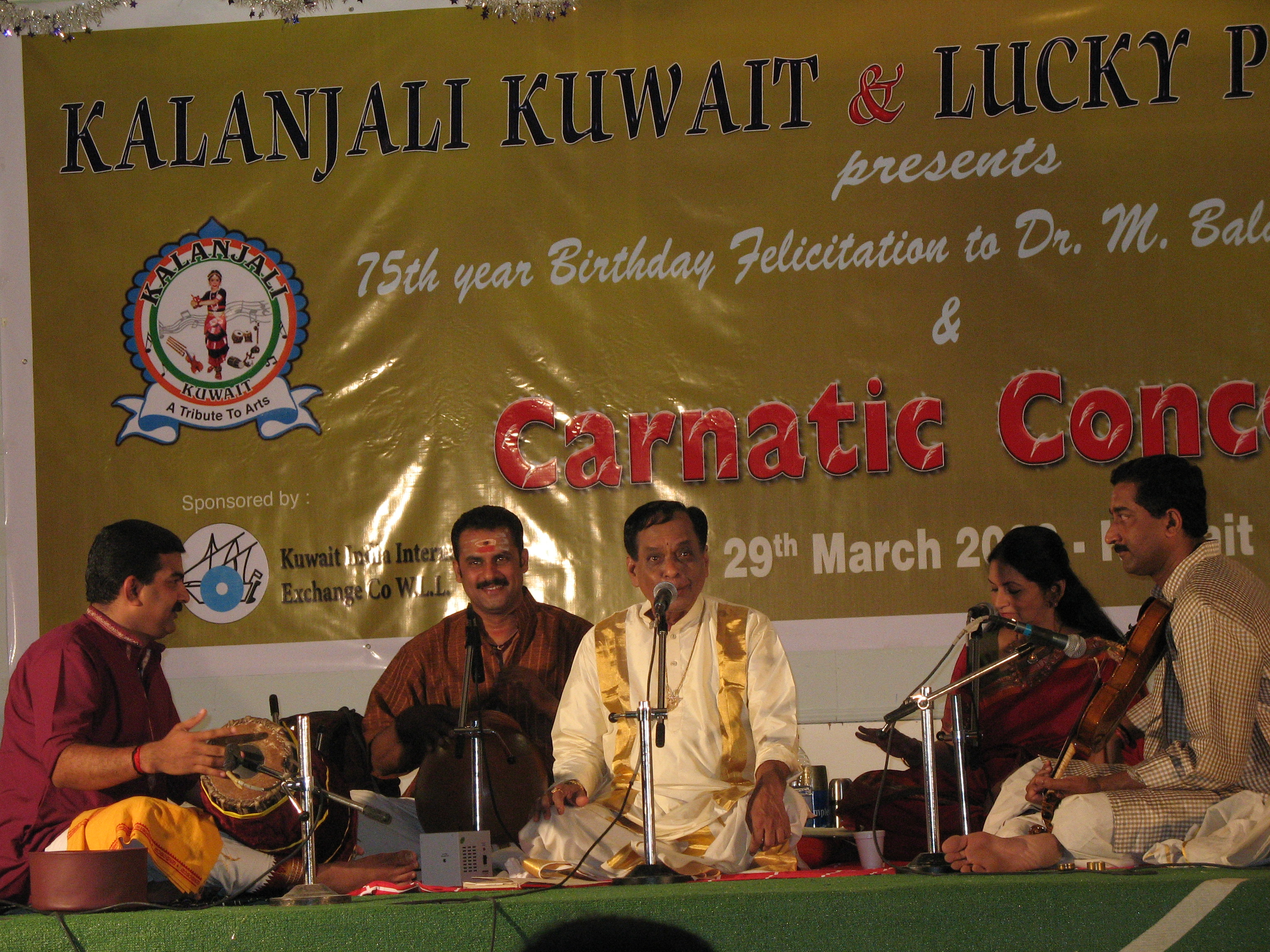 M. Balamuralikrishna, taken during a classical concert in Kuwait